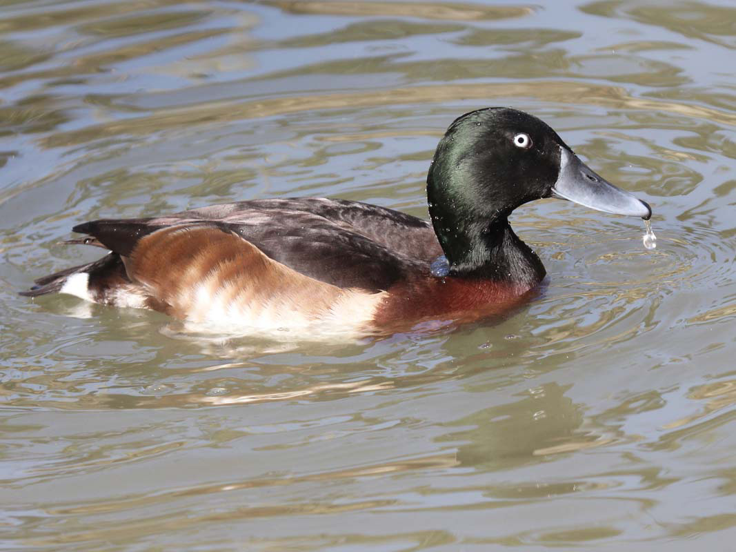 Male Baer's Pochard (Aythya baeri) at Sylvan Heights Waterfowl Park in North Carolina, USA.